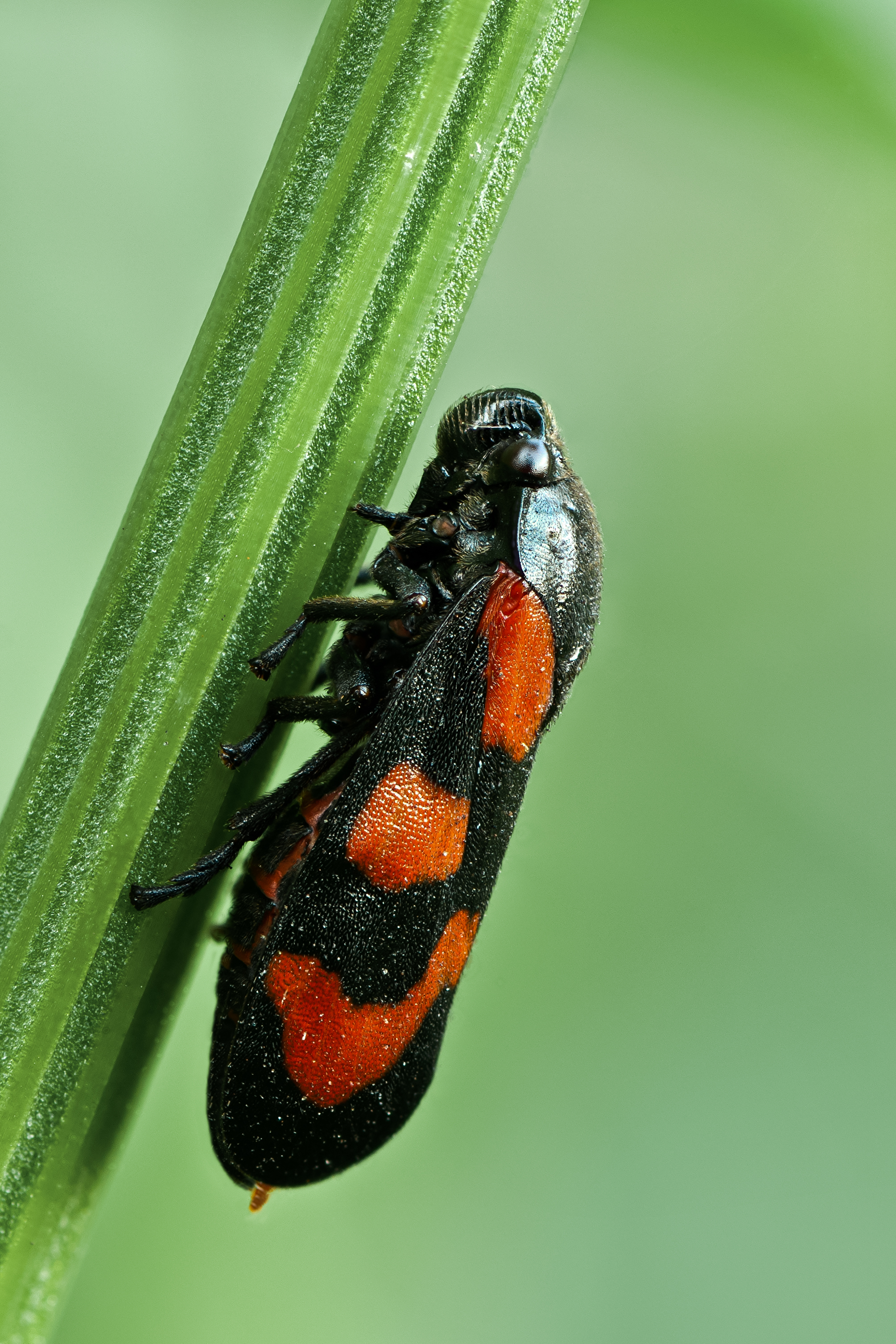 Cercopidae are the largest family of Cercopoidea, a xylem-feeding insect group, commonly called froghoppers. They belong to the hemipteran suborder Auchenorrhyncha.